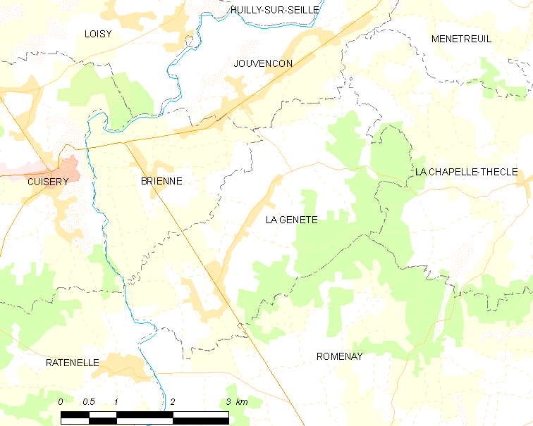 Map of French municipality